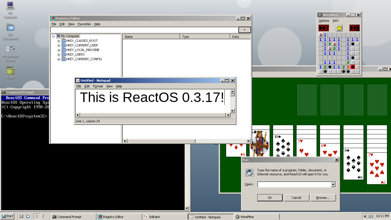 ReactOS 0.3.17 Multitask